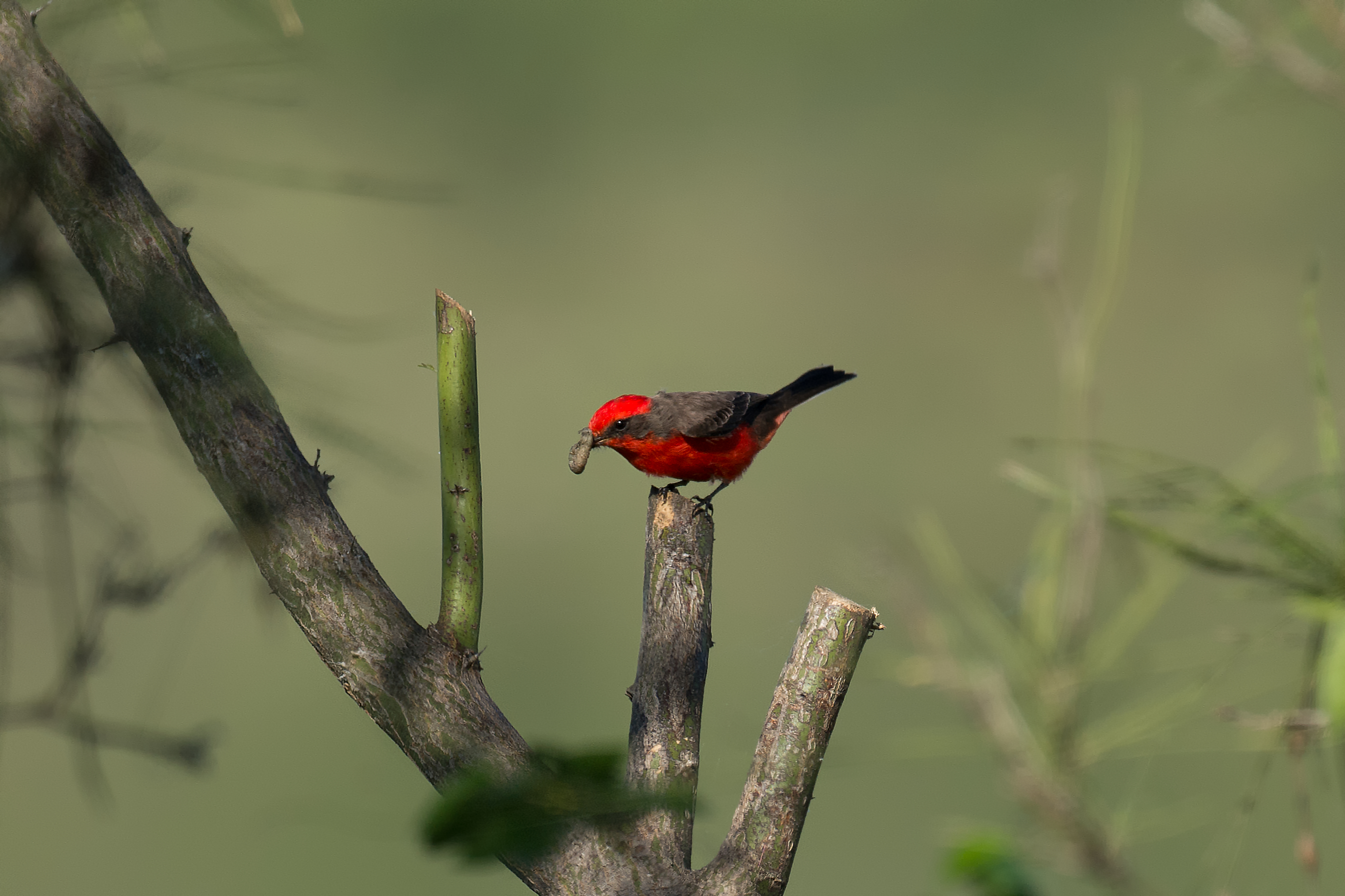 vermillion flycatcher mitchell lake